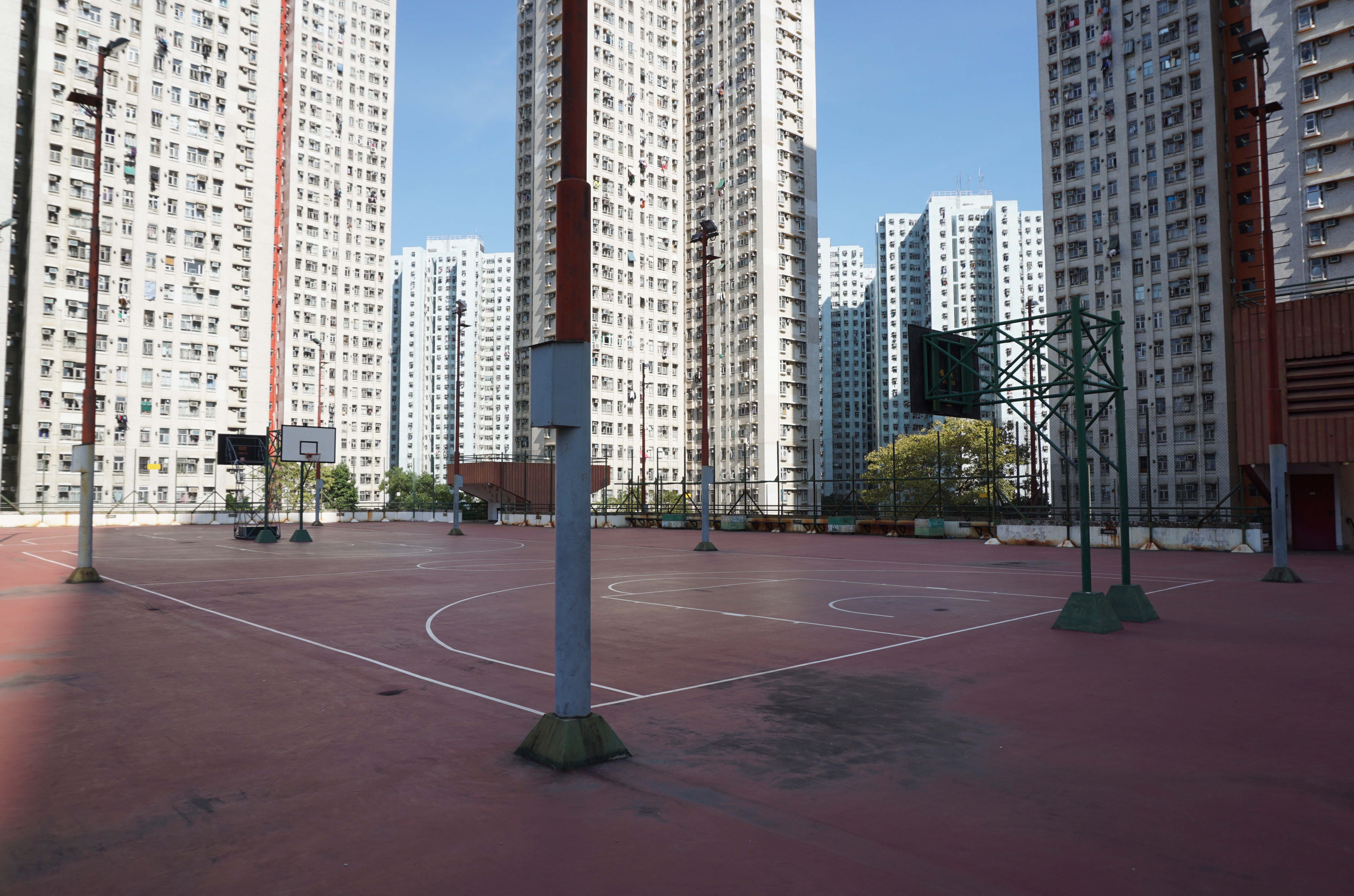 Siu Hei Court in Tuen Mun, Hong Kong.